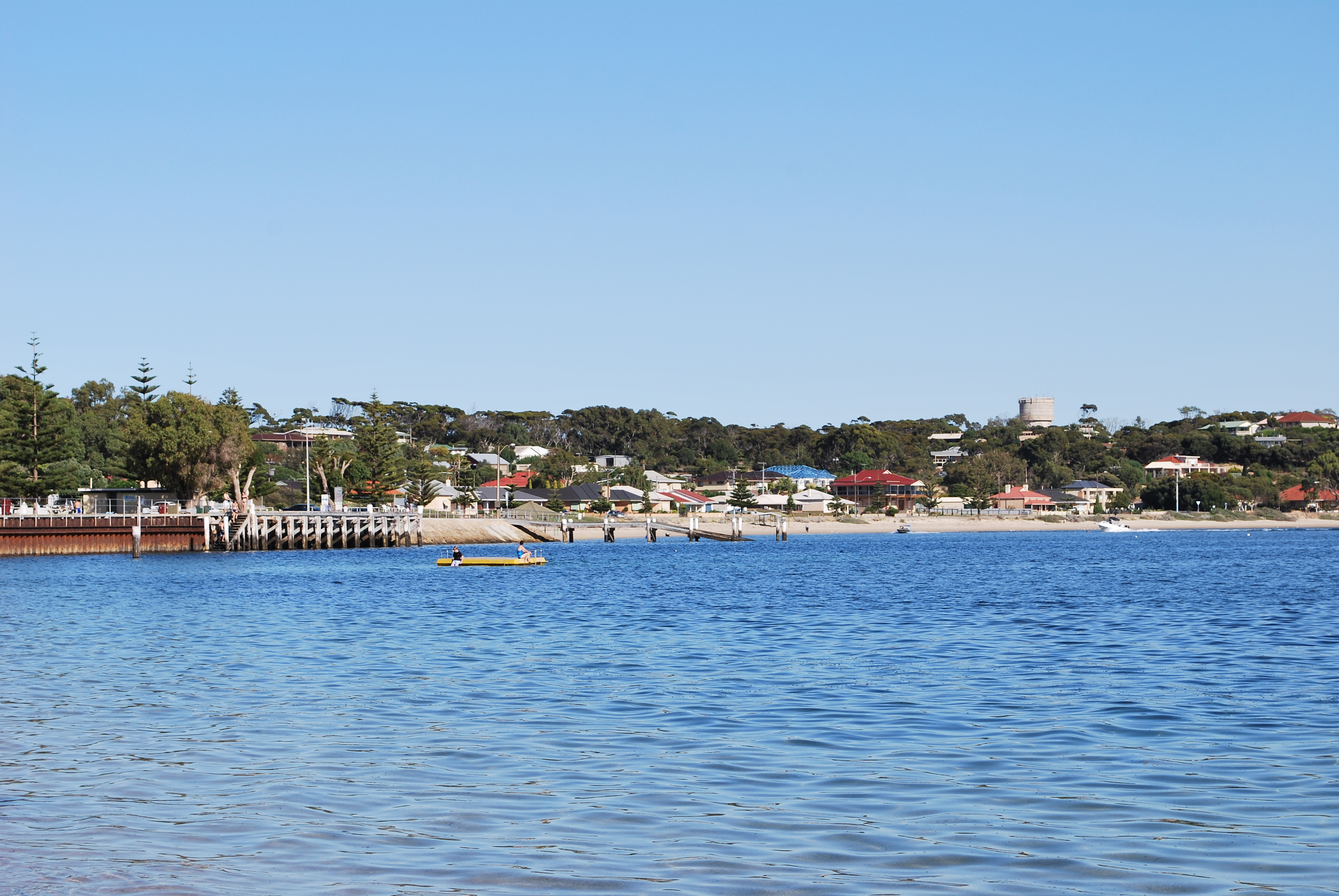 Looking across at the beach at Port Vincent, South Australia